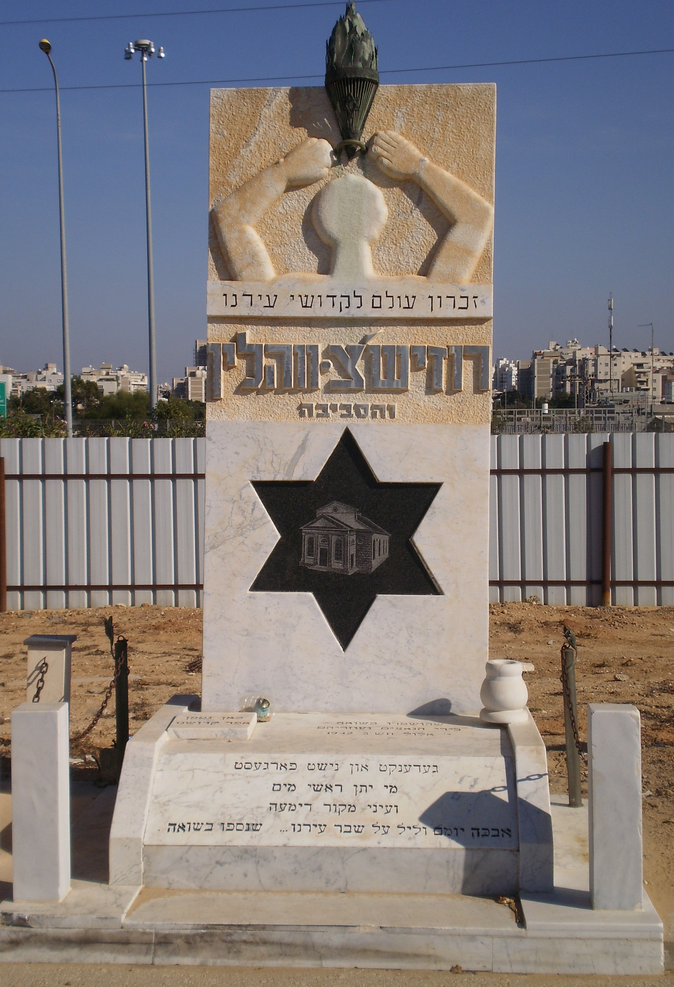 RozhyshcheJewery Holocaust memorial at Holon Cemetery